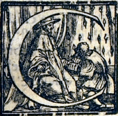 Renato Gentili and Francesco Bandini Piccolomini